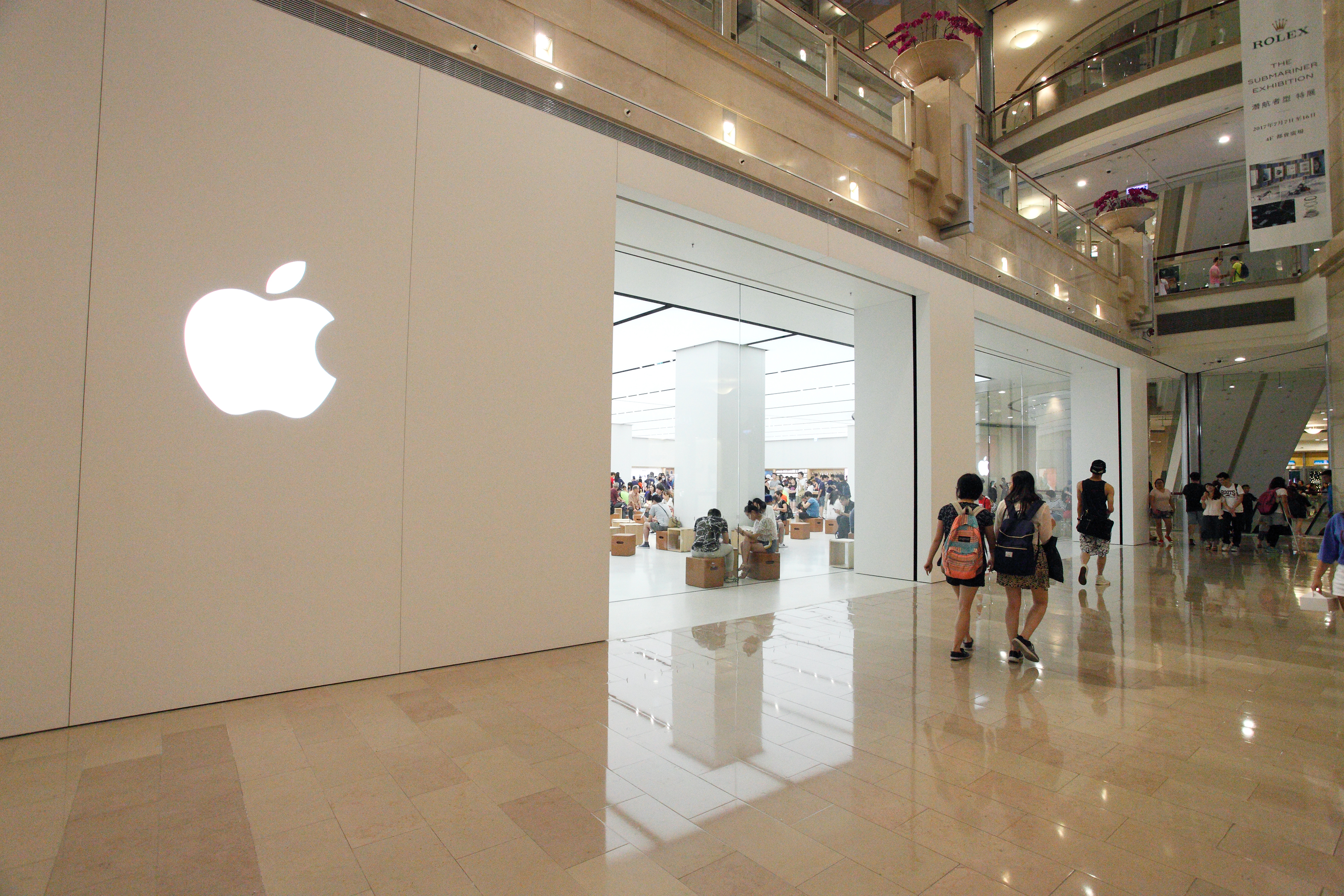 First Apple Store in Taipei, Taiwan - located in Taipei 101 Mall